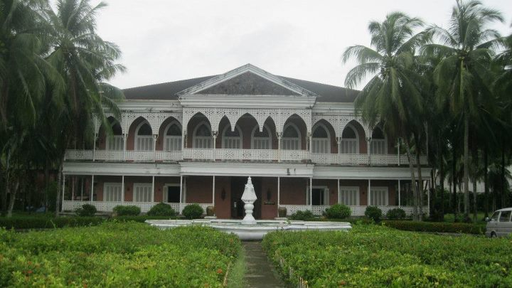 The Sto. Nino Shrine along Real Street, built by the family of late Pres. Ferdinand Marcos.